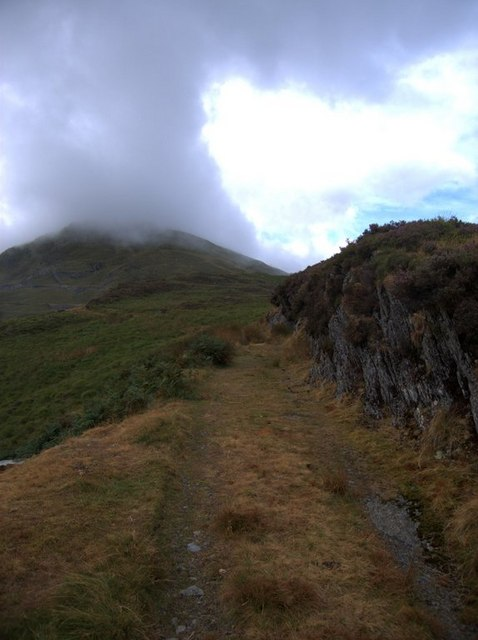 Moel Dyrnogydd. Moel Dyrnogydd, the western gatepost of Crimea pass, shrouded in cloud. The track connects the pass with the site of the 216111.